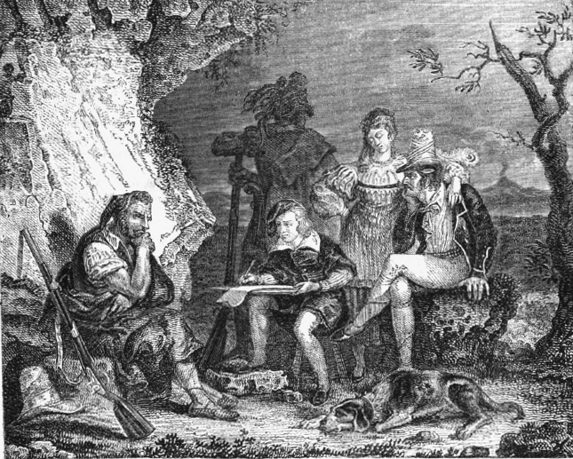 Salvator Rosa depicted with brigants Salvator Rosa mentre dipinge fra i briganti abruzzesi o calabresi